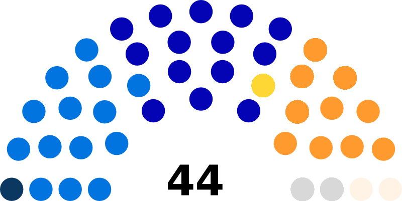 Seats diagramme of Swiss Council of States (1854)